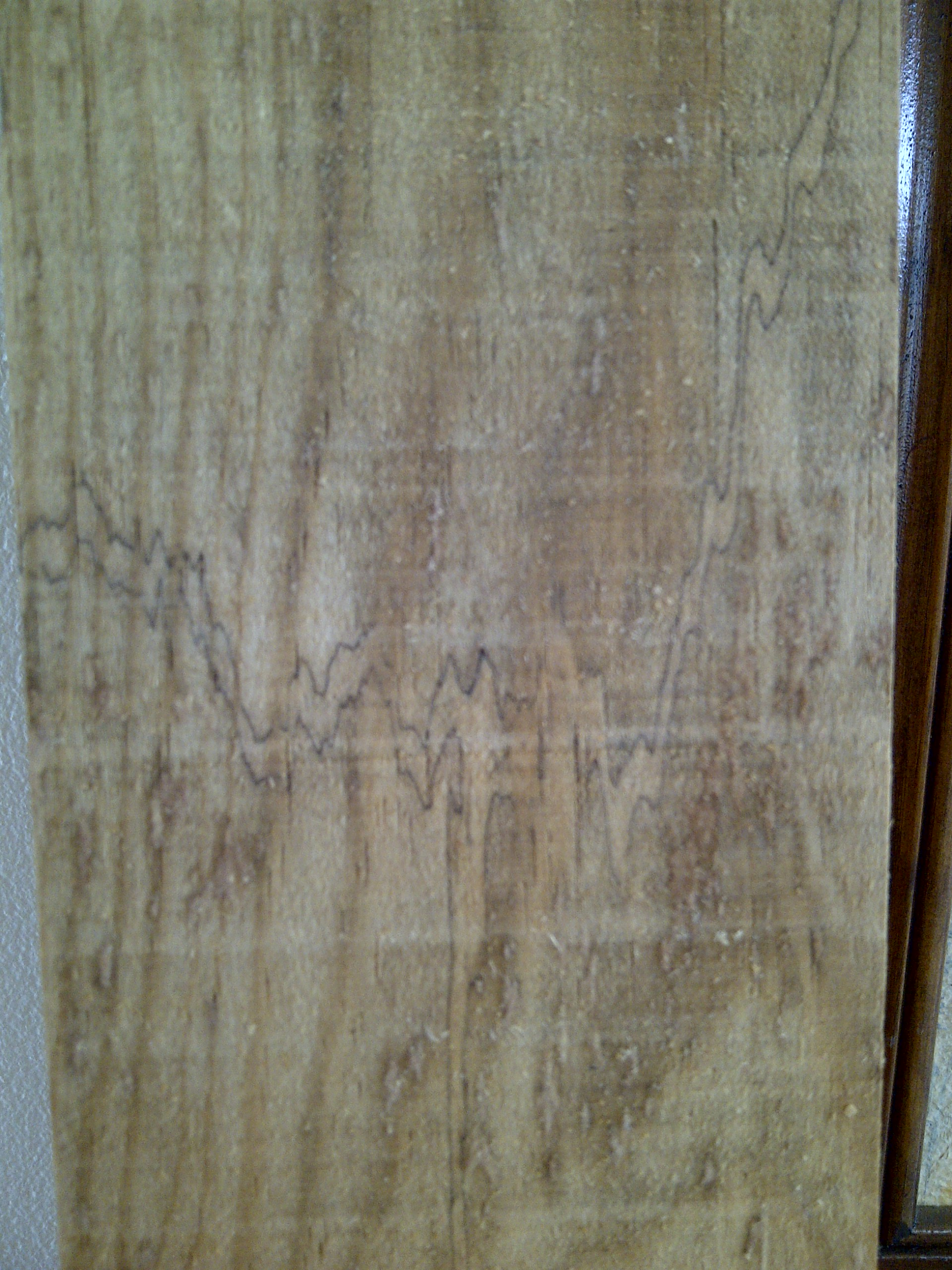 Armillaire on pine wood.